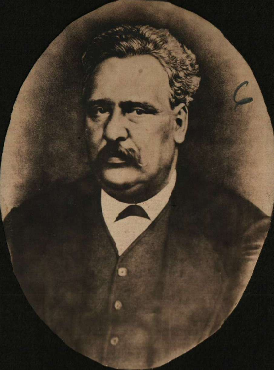 Petko Slaveykov.